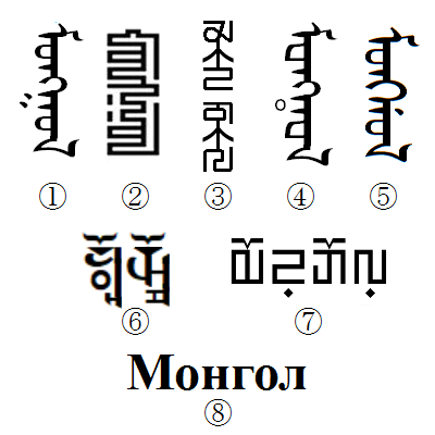 Variants of Mongolian script